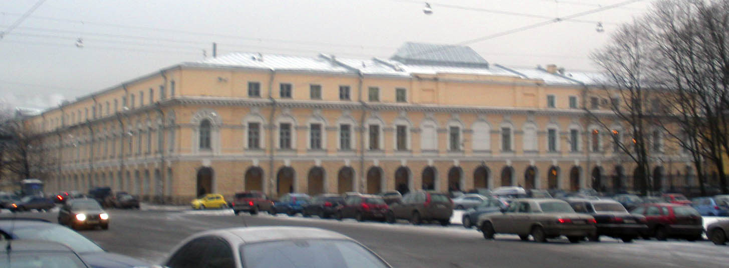 Faculty of Philosophy and Politology of Saint Petersburg State Univercity.